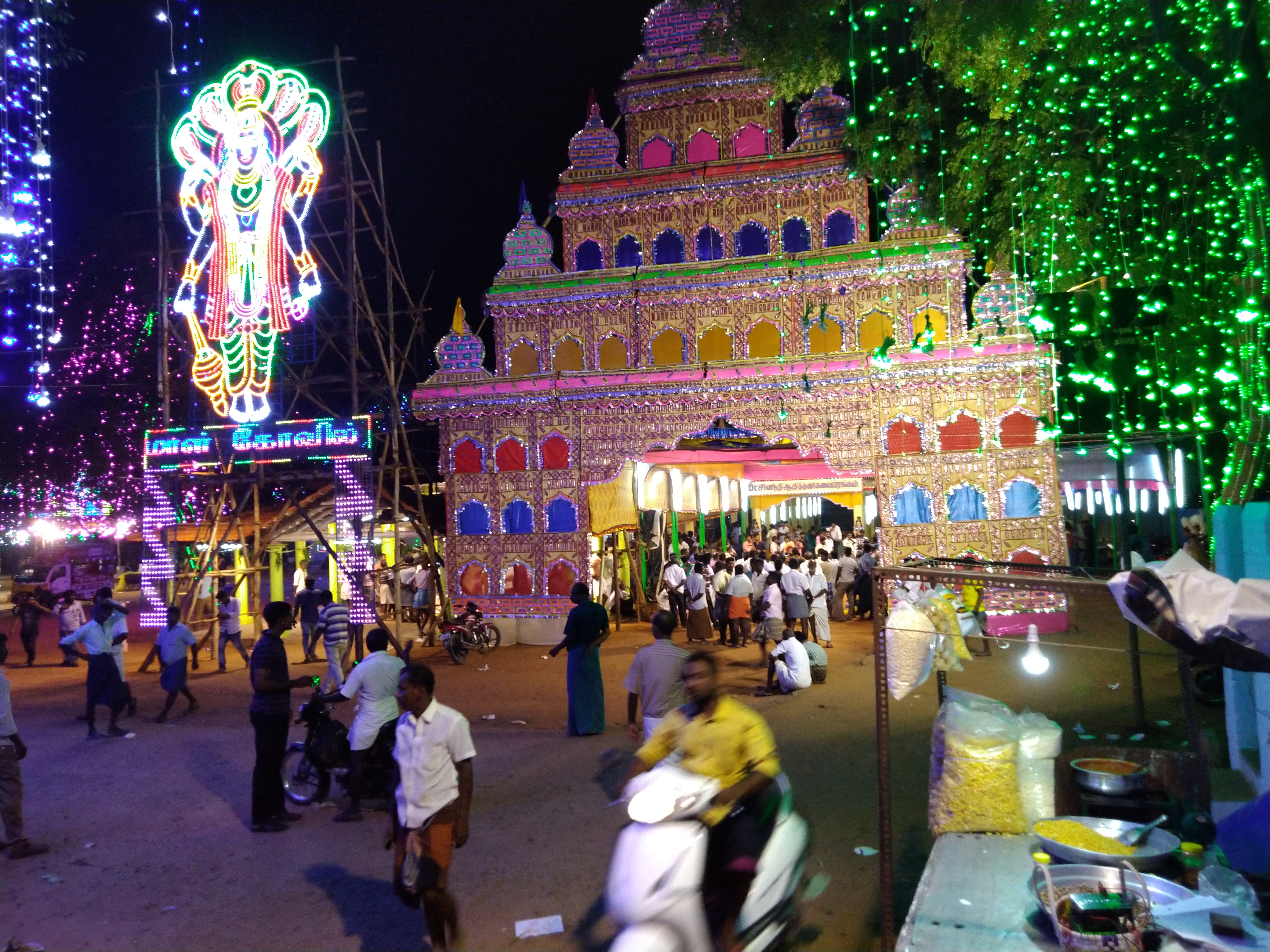 kuttam kovil kodai